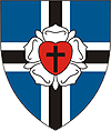 Coat of arms of the Estonian Evangelical Lutheran Church.